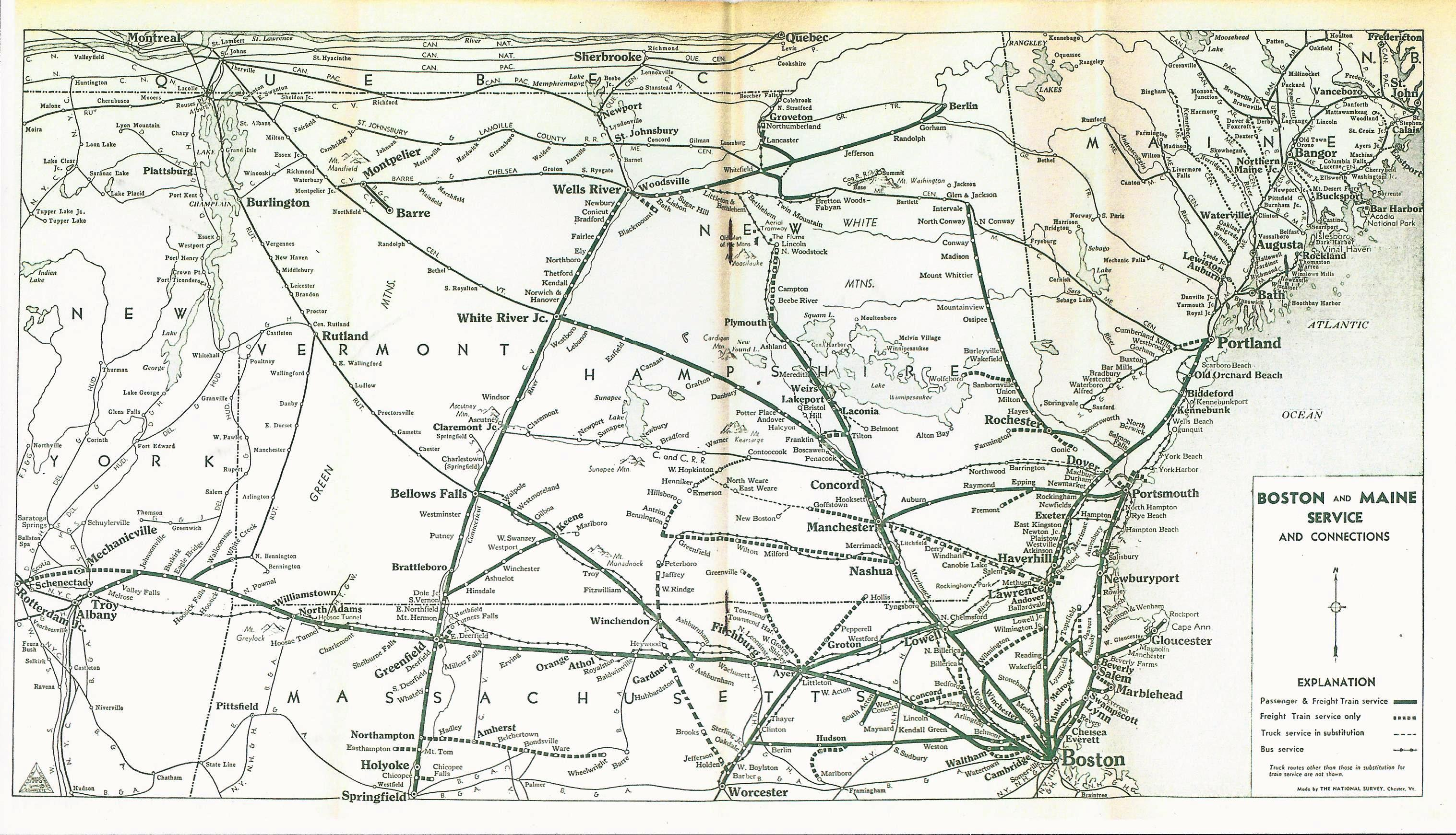 System map of the Boston and Maine Railroad from a 1956 timetable